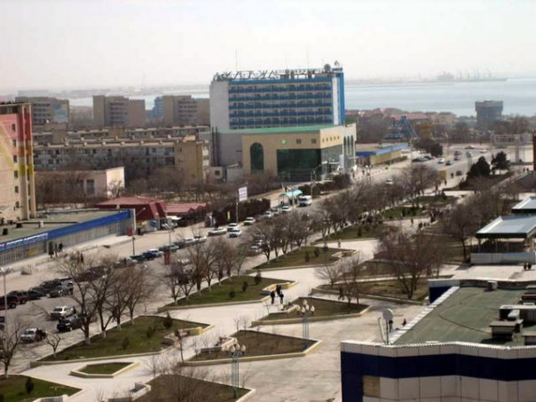 copied from